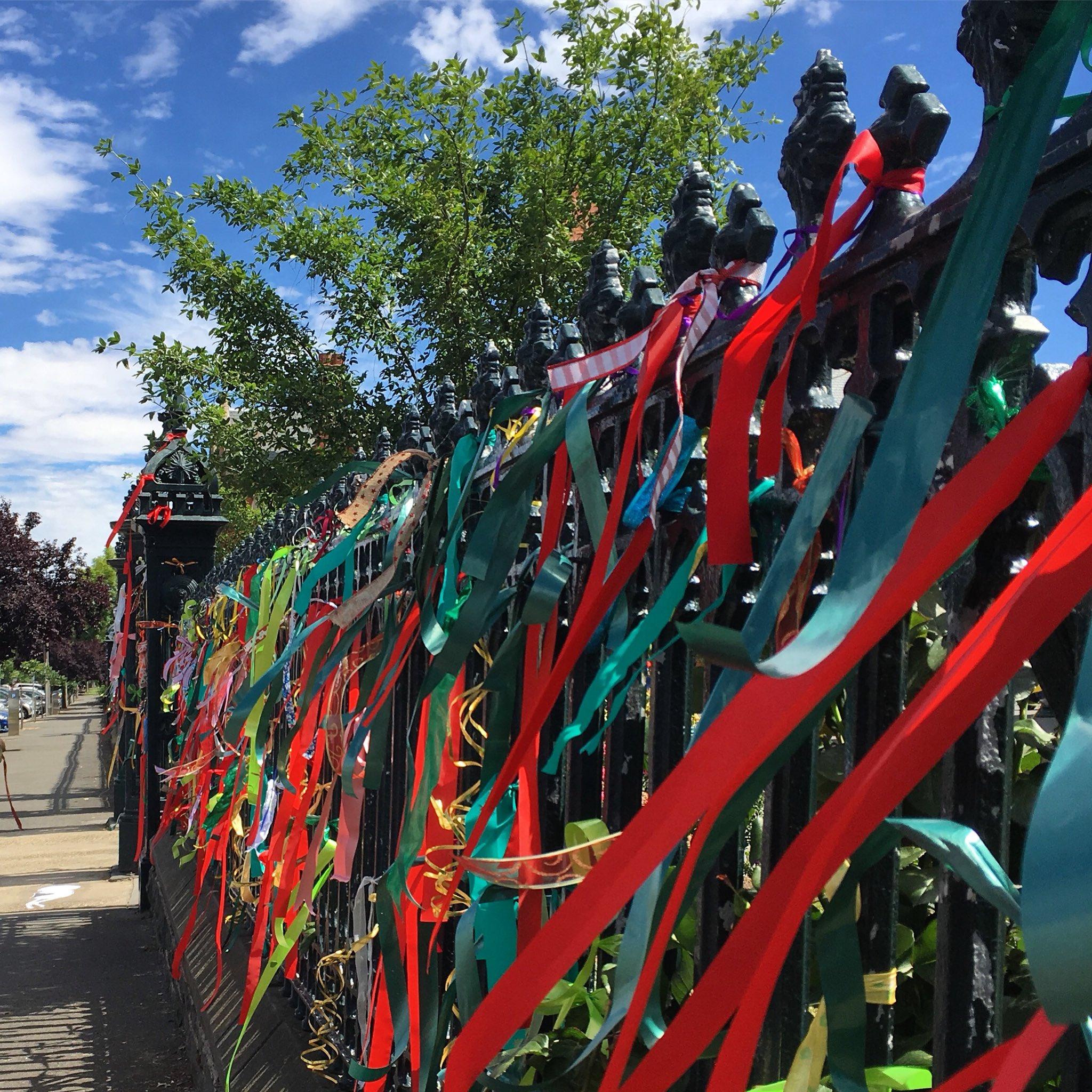 The iron fence of St Patrick's Cathedral, Ballarat, with ribbons tied by the community to represents support of victims of sexual abuse and to acknowledge the history of sexual abuse.